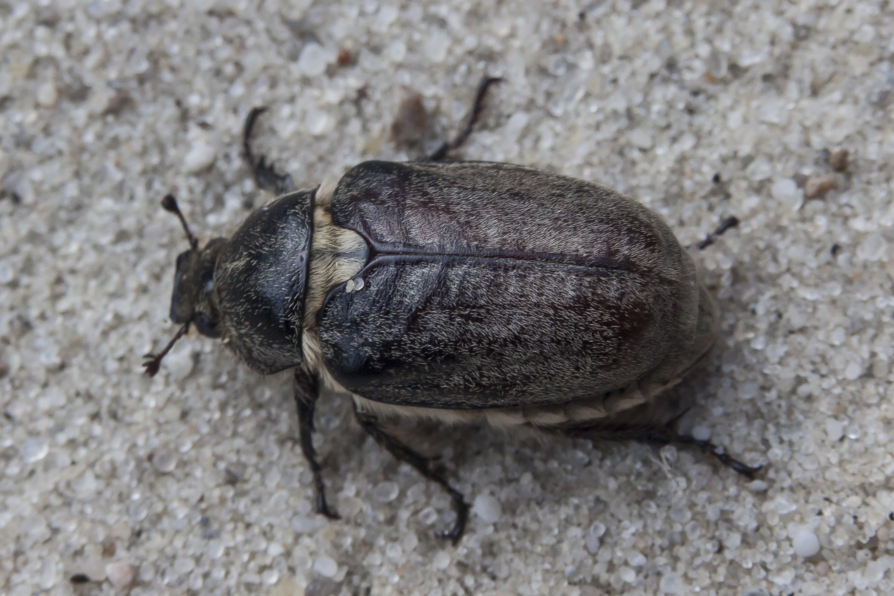 Anoxia pilosa female, 05.06.2017, Kyiv, Ukraine, evening mass gathering